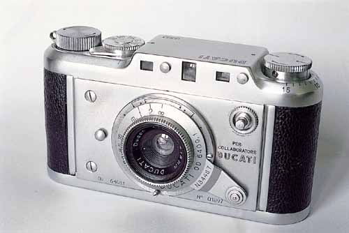 Public domain photograph, I made this photo myself